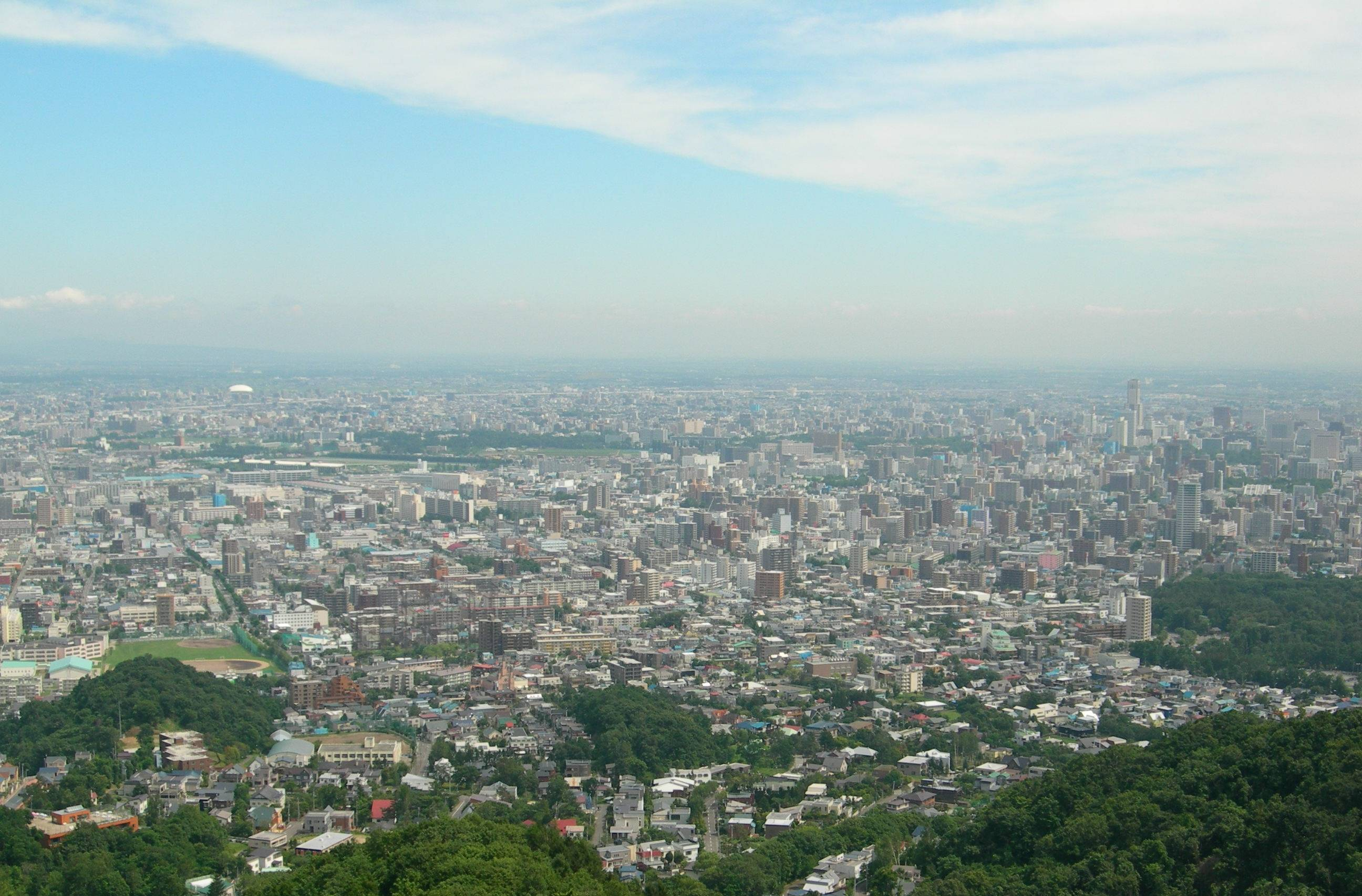 Blick auf Sapporo (Japan)